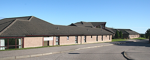 Spynie Care Home. A modern residential home.